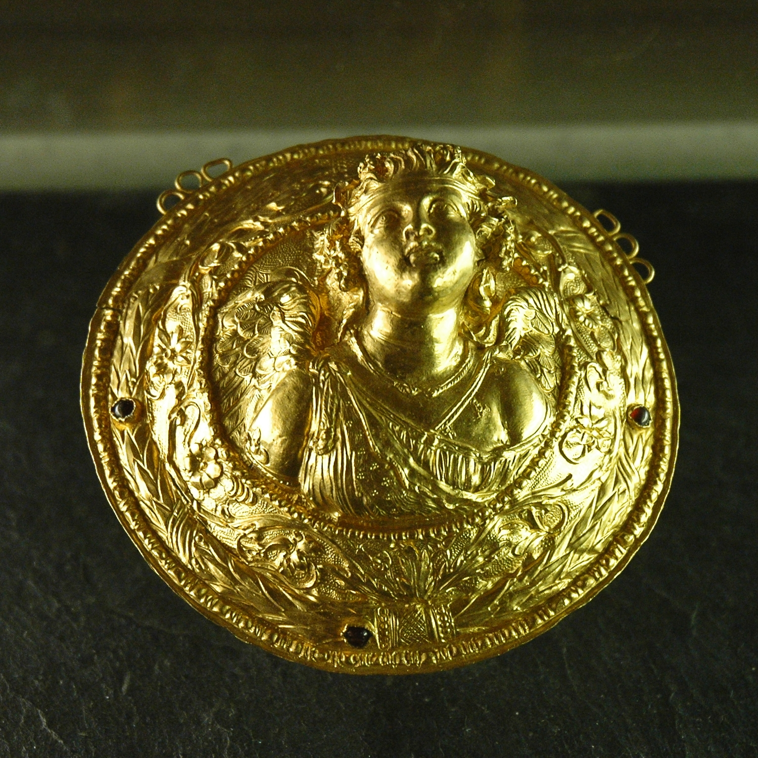 Medallion with Eros, hair ornament, second half of the 3rd century BC, hellenised Orient. Musée du Louvre, Paris.